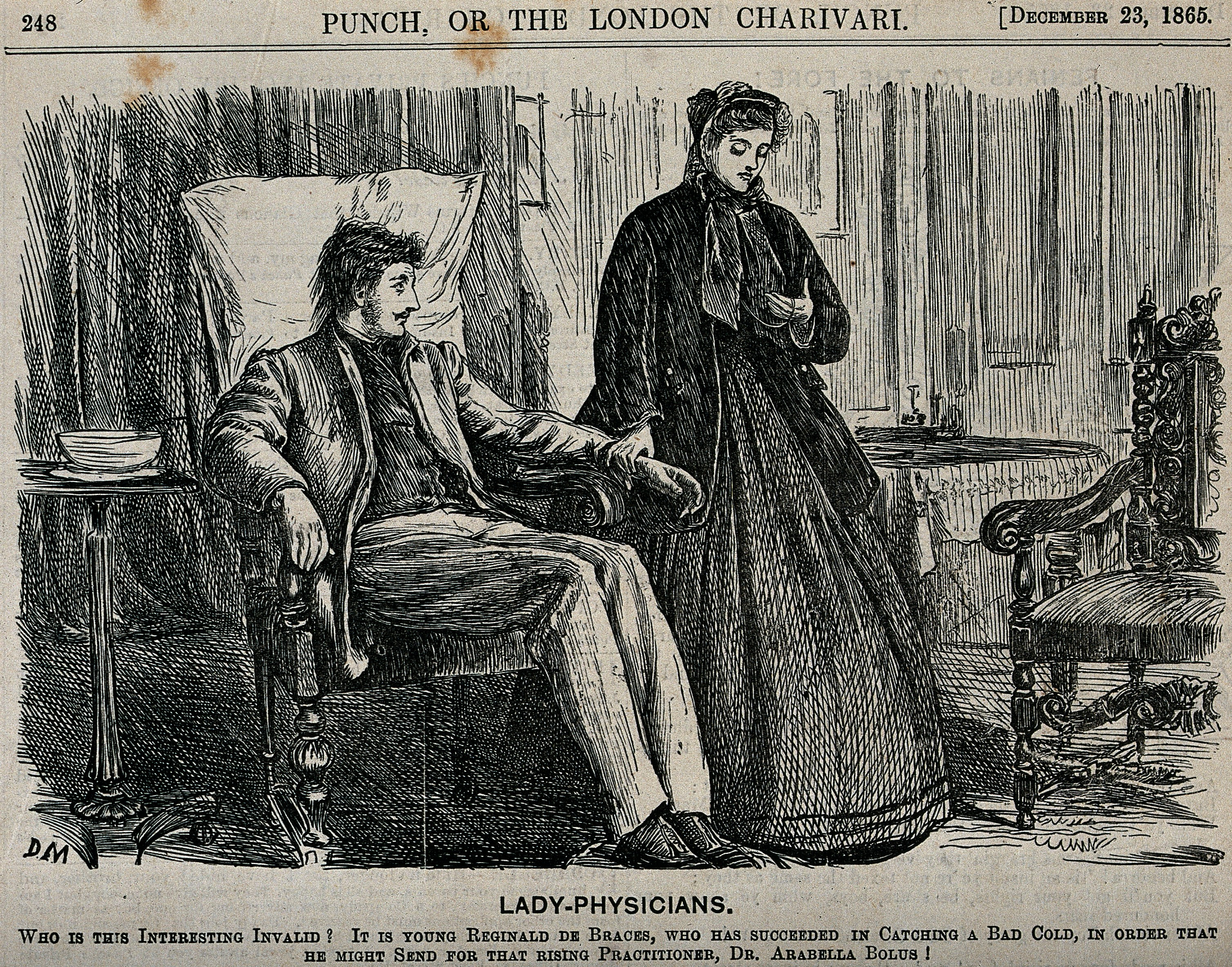 A cartoon showing a lady physician attending to a young man in an armchair. The caption suggests he has purposefully caught a cold in order to be seen by the young pretty doctor. Iconographic Collections Keywords: George Du Maurier; Physicians; Woman; Patient; Satire; Female; England; Cold; Male; Cartoon; Man